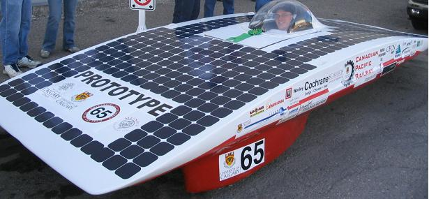 Taken with my personal digital camera by a friend. As a team member, I permit this photo to be freely distributed.